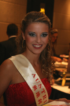 Miss Austria 2007, Christine Reiler, in Miss World 2007, Sanya, China